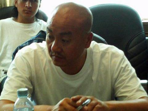 Targyal